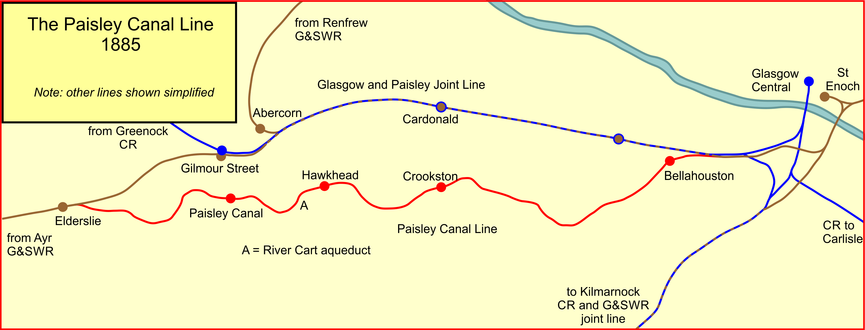 System map of the Paisley Canal Railway line in 1885